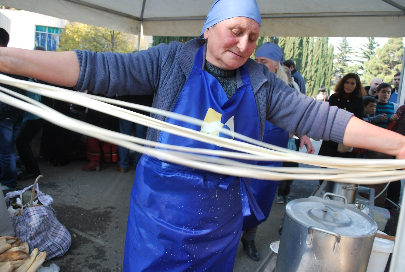 Production of Georgian tenili cheese. The cheese is repeatedly stretched into thinner strands.